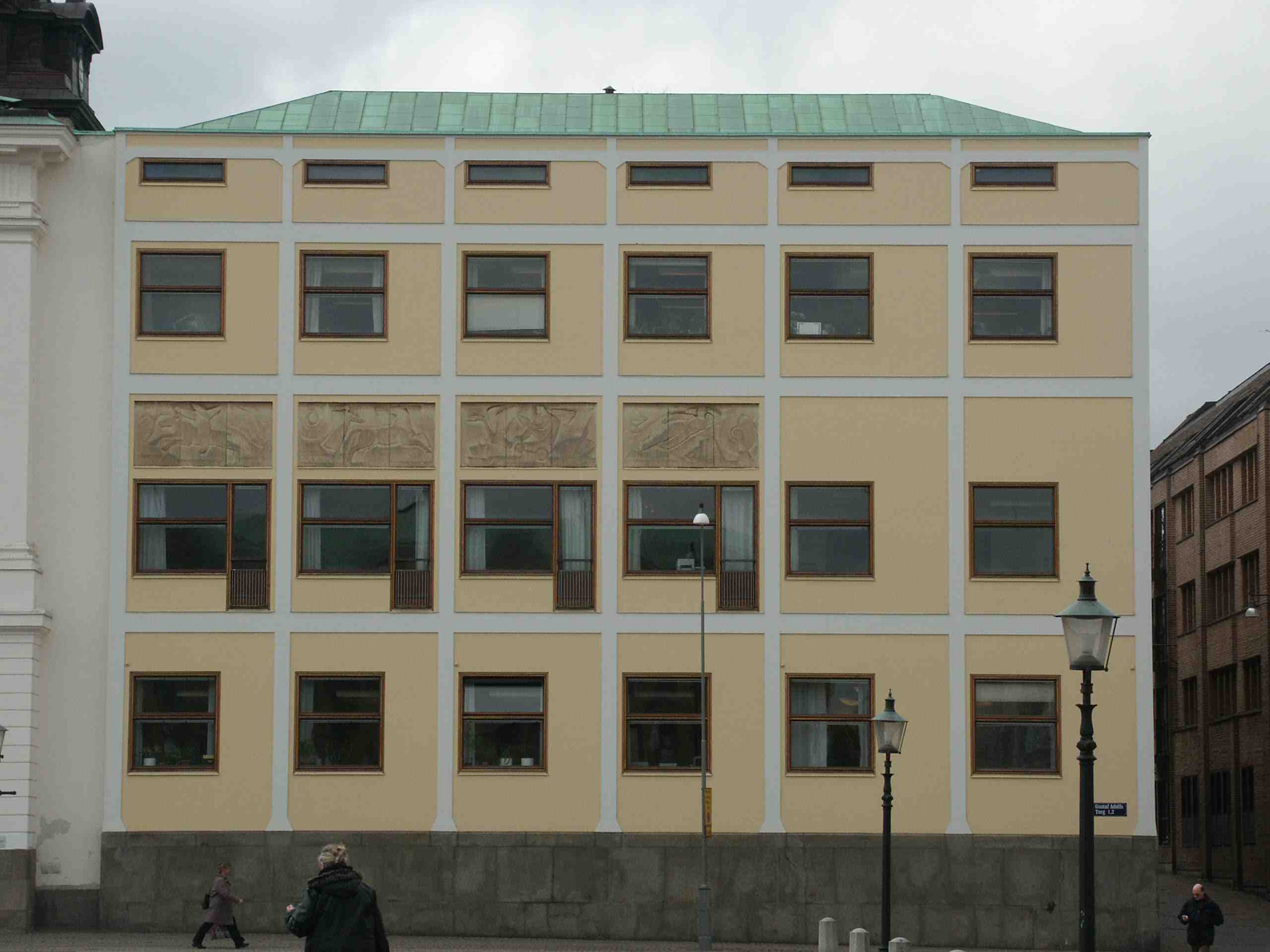 Photographer: Erik of Gothenburg, EVL. The Courthouse extension by Gunnar Asplund.